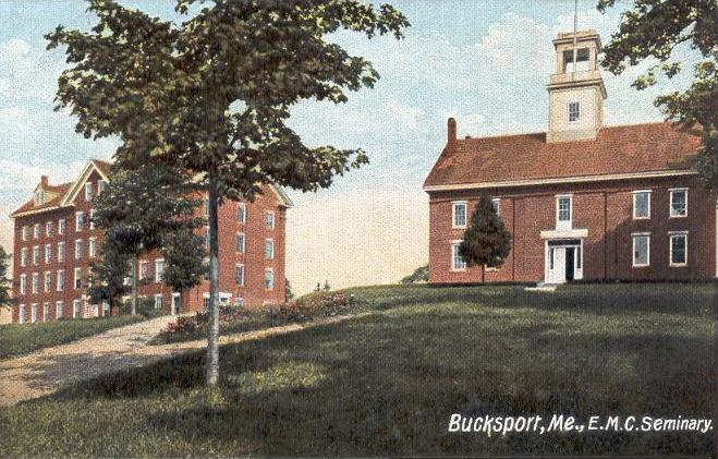 East Maine Conference Seminary, Bucksport, Maine. Opened by the Methodist Church in 1851, the secondary school operated until 1933. At right is the school's original building, Wilson Hall, erected in 1851. It was added in 1983 to the National Register of Historic Places.